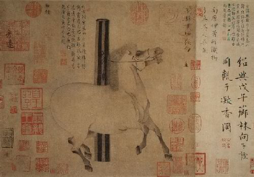 Night-Shining White, Tang dynasty (618–907), Attributed to Han Gan (Chinese, active 742–756); Handscroll; ink on paper; 12 1/8 x 13 3/8 in. (30.8 x 34 cm); Purchase, The Dillon Fund Gift, 1977 (1977.78)